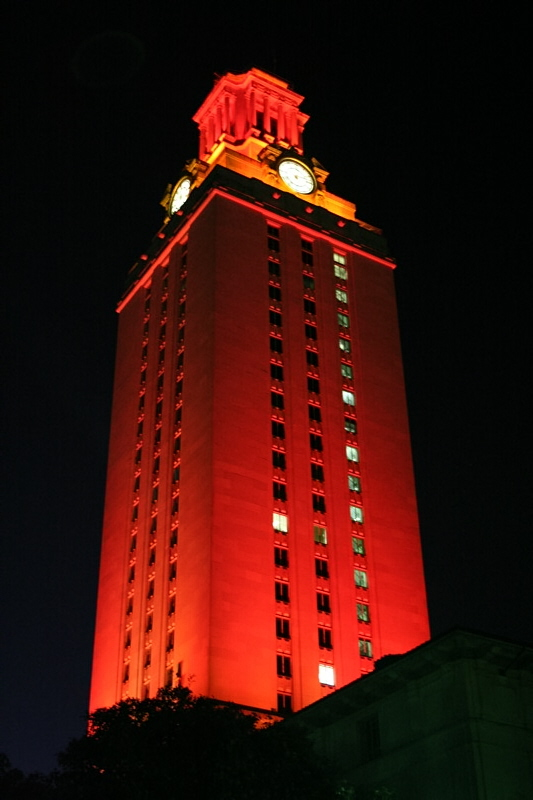 UT Austin Tower lit entirely in orange to celebrate a significant athletic victory or campus-wide accolade